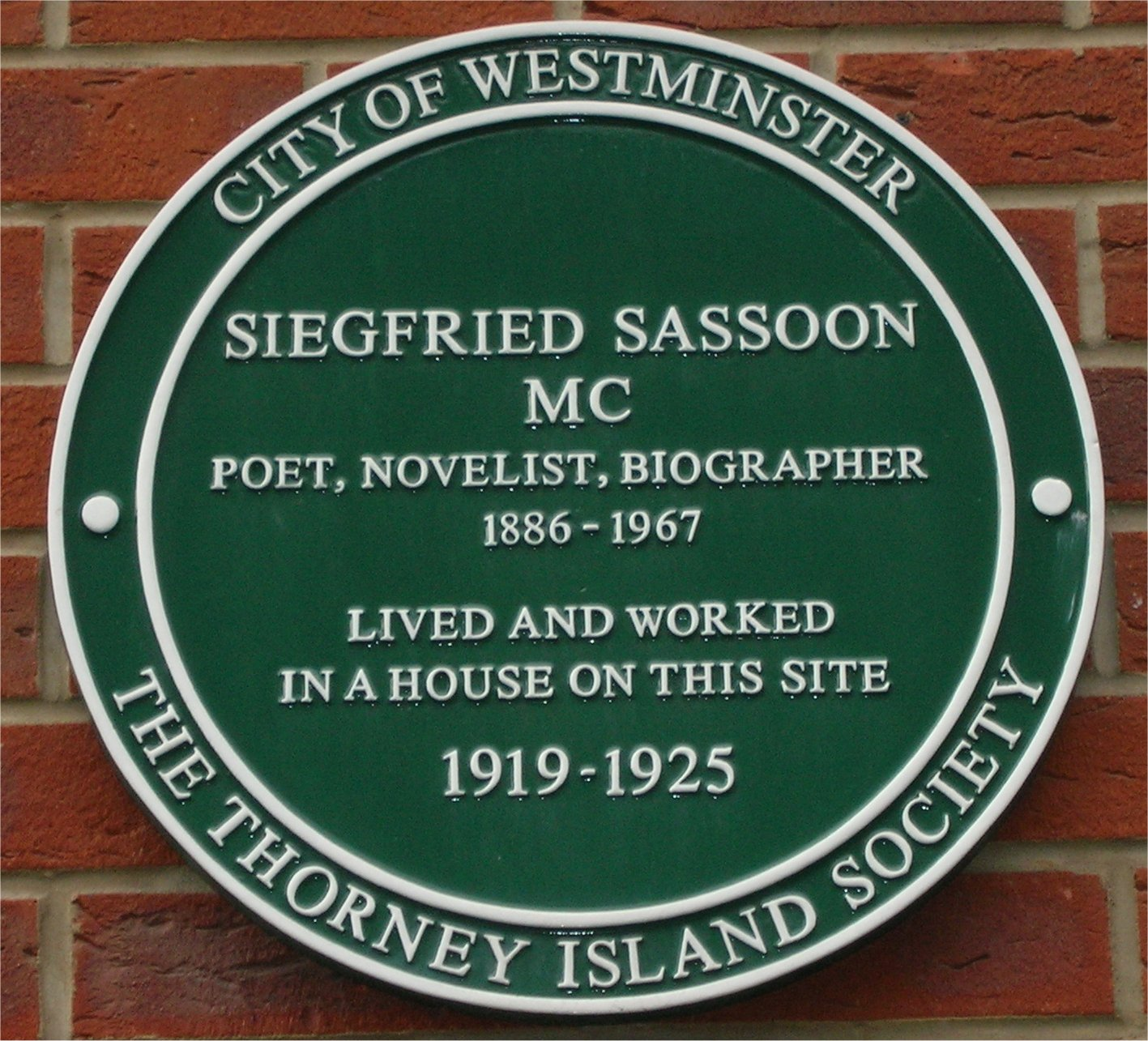 Green plaque on Siegfried Sassoon's house in Tufton Street, Westminster, London. Photographed by me 24 February 2007.